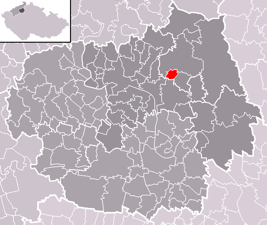 Location of Horní Řepčice municipality within Litoměřice District and administrative area of Litoměřice as a Municipality with Extended Competence.